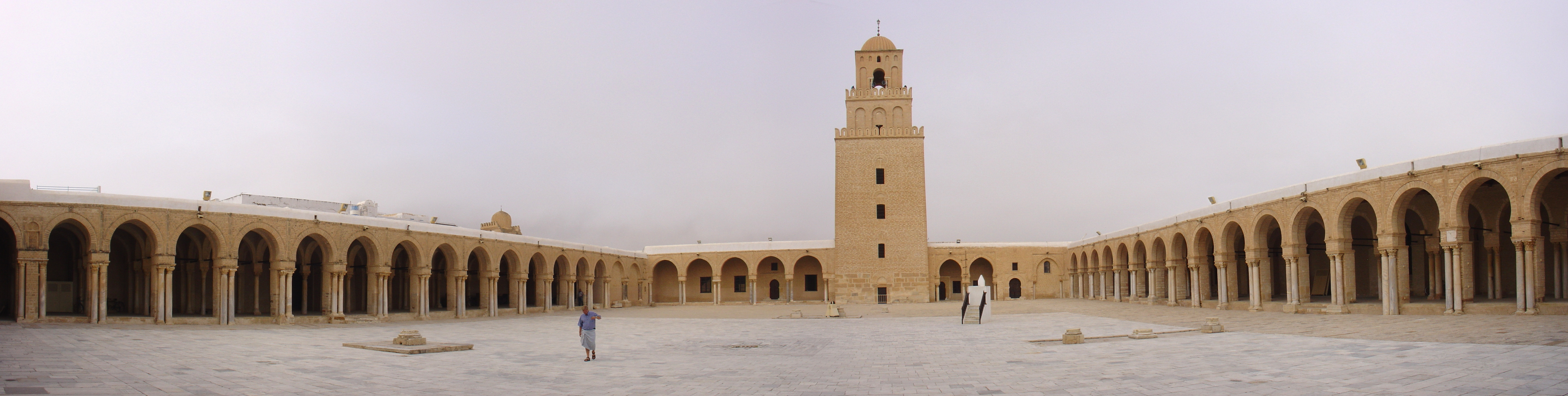 Panoramics of the northern side of the Great Mosque of Kairouan courtyard